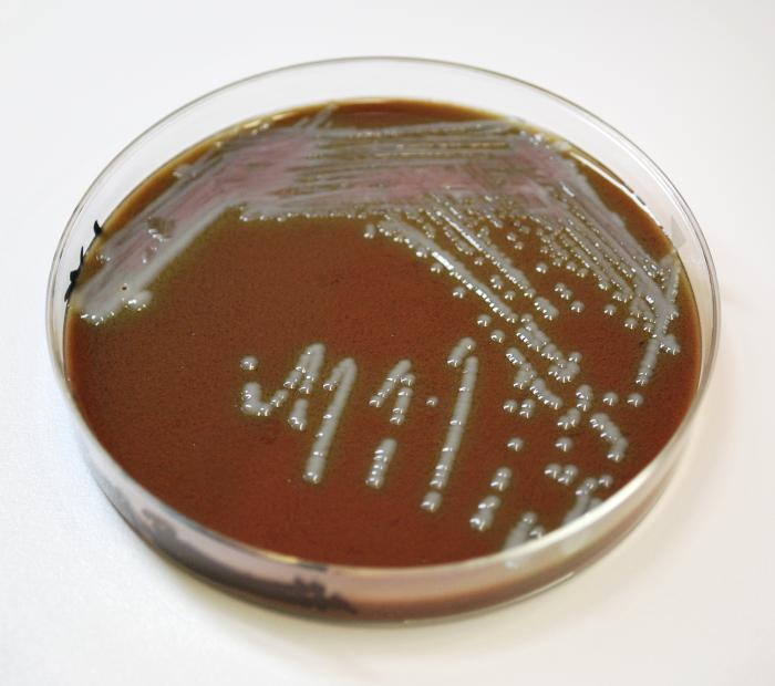 chocolate agar medium with Francisella tularensis